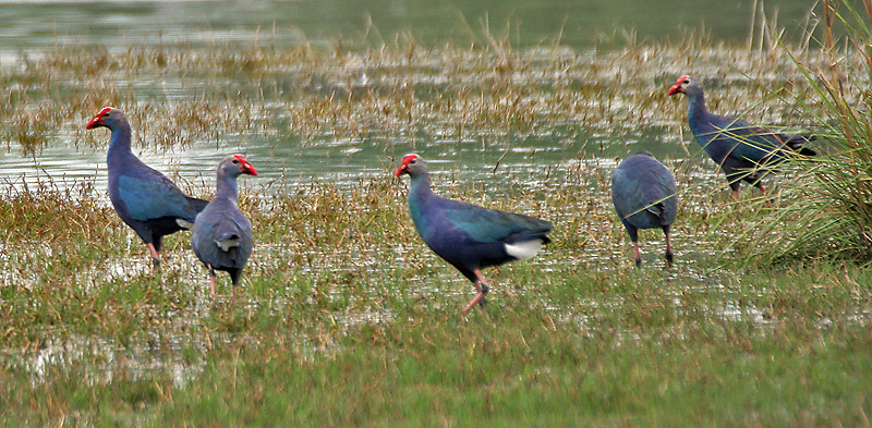 Purple Swamphen (Porphyrio porphyrio) at Sultanpur National Park in Gurgaon District of Haryana, India.